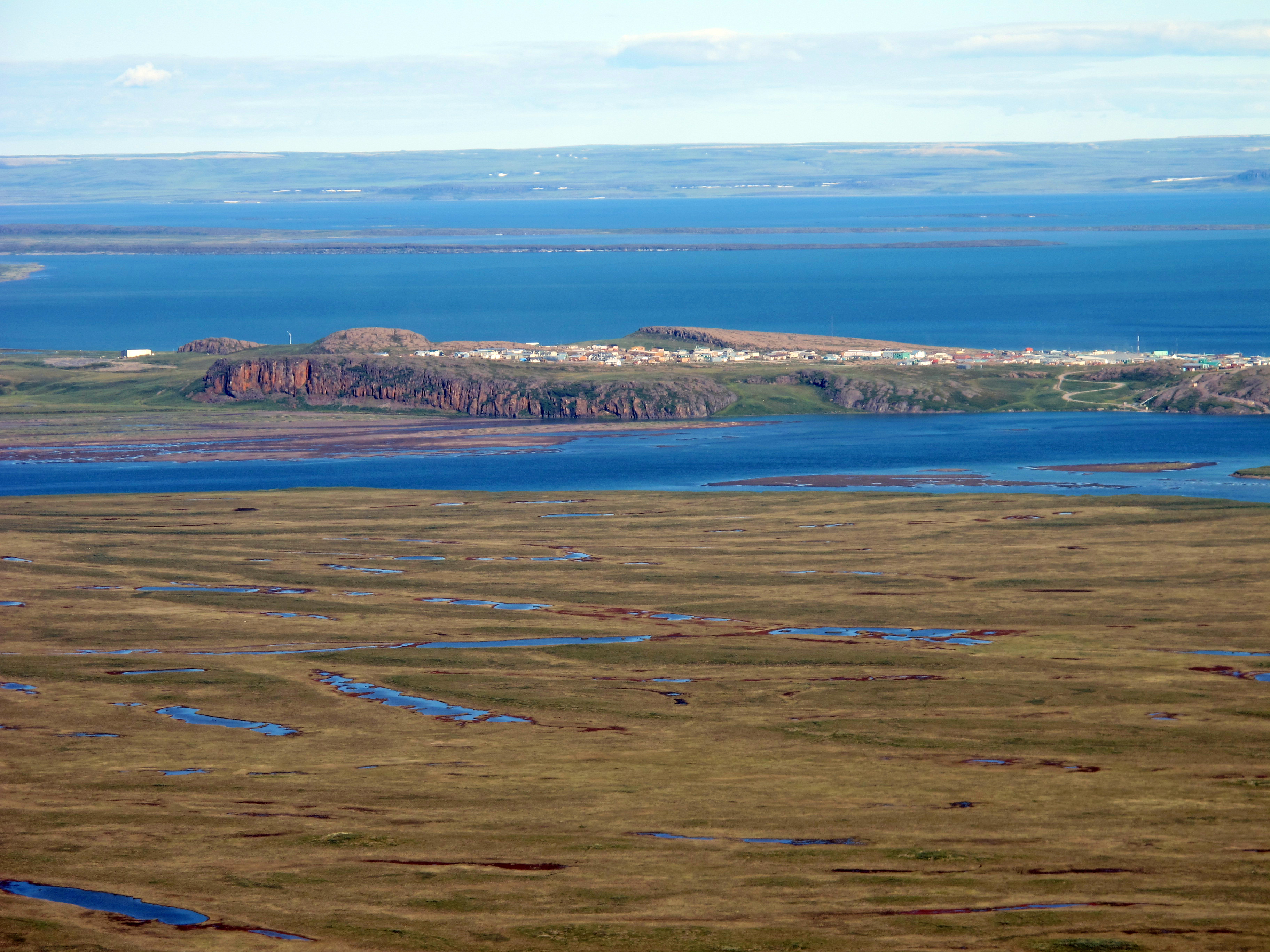 Looking north at the community of Kugluktuk